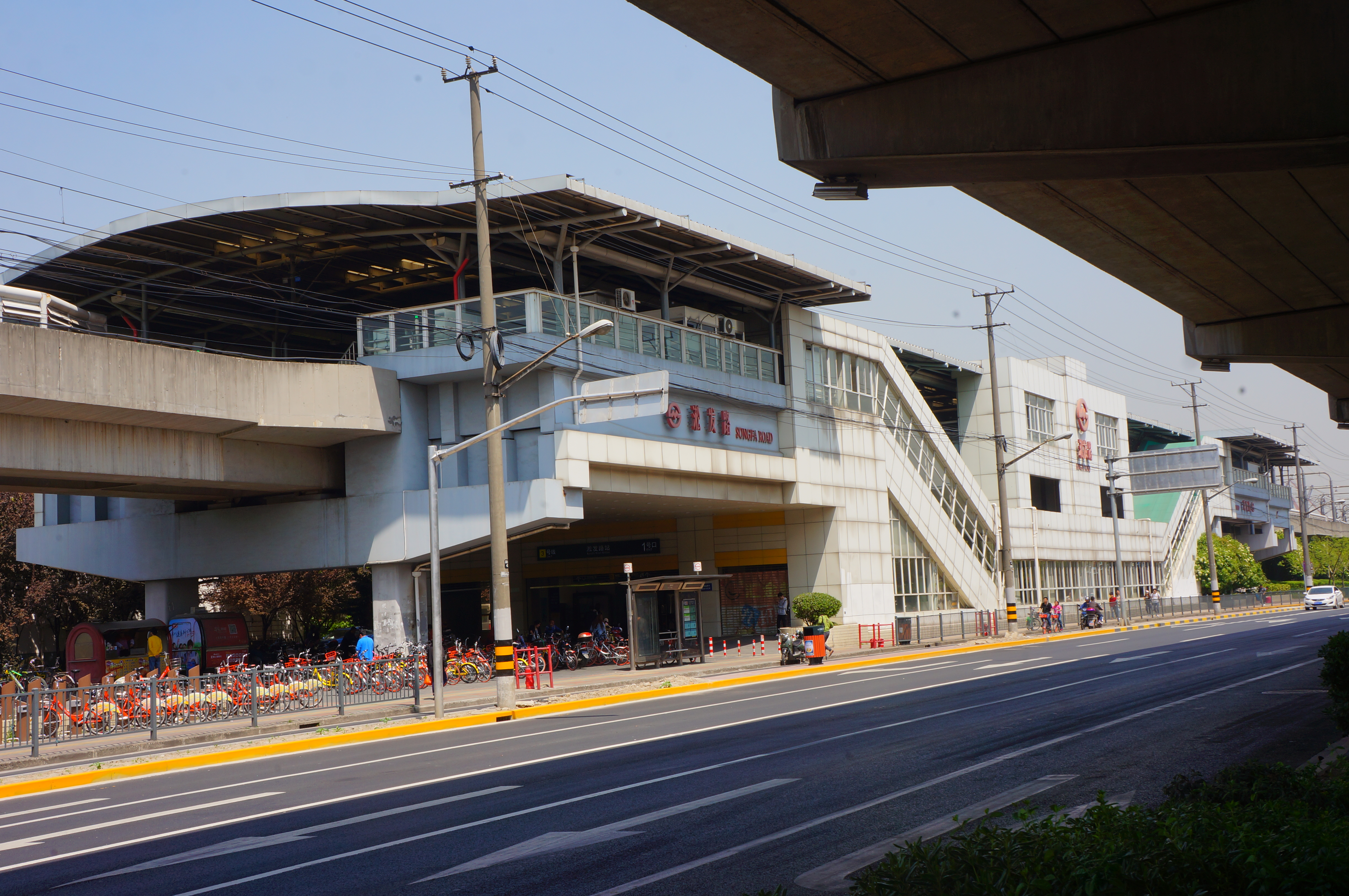 201704 Songfa Road Station